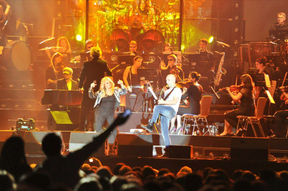 Bonnie Tyler performing live in Germany on March 2nd 2013.